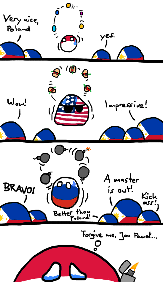 Polandball comic on the news that a grenade attack at a Filipino army outpost injures 30+ people at a circus performance (news link)